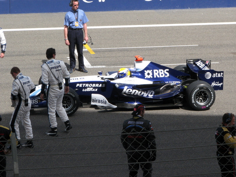 Nico Rosberg driving for Williams at the 2007 Bahrain Grand Prix.